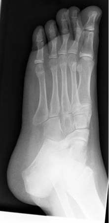 Standing lateral images of the left foot together with oblique images in this 10 year old with left flat foot clinically. Alignment of mid and hind feet looks to be normal. There is however evidence of calcaneal-navicular coalition on the left associated with both talar and calcaneal beaking.